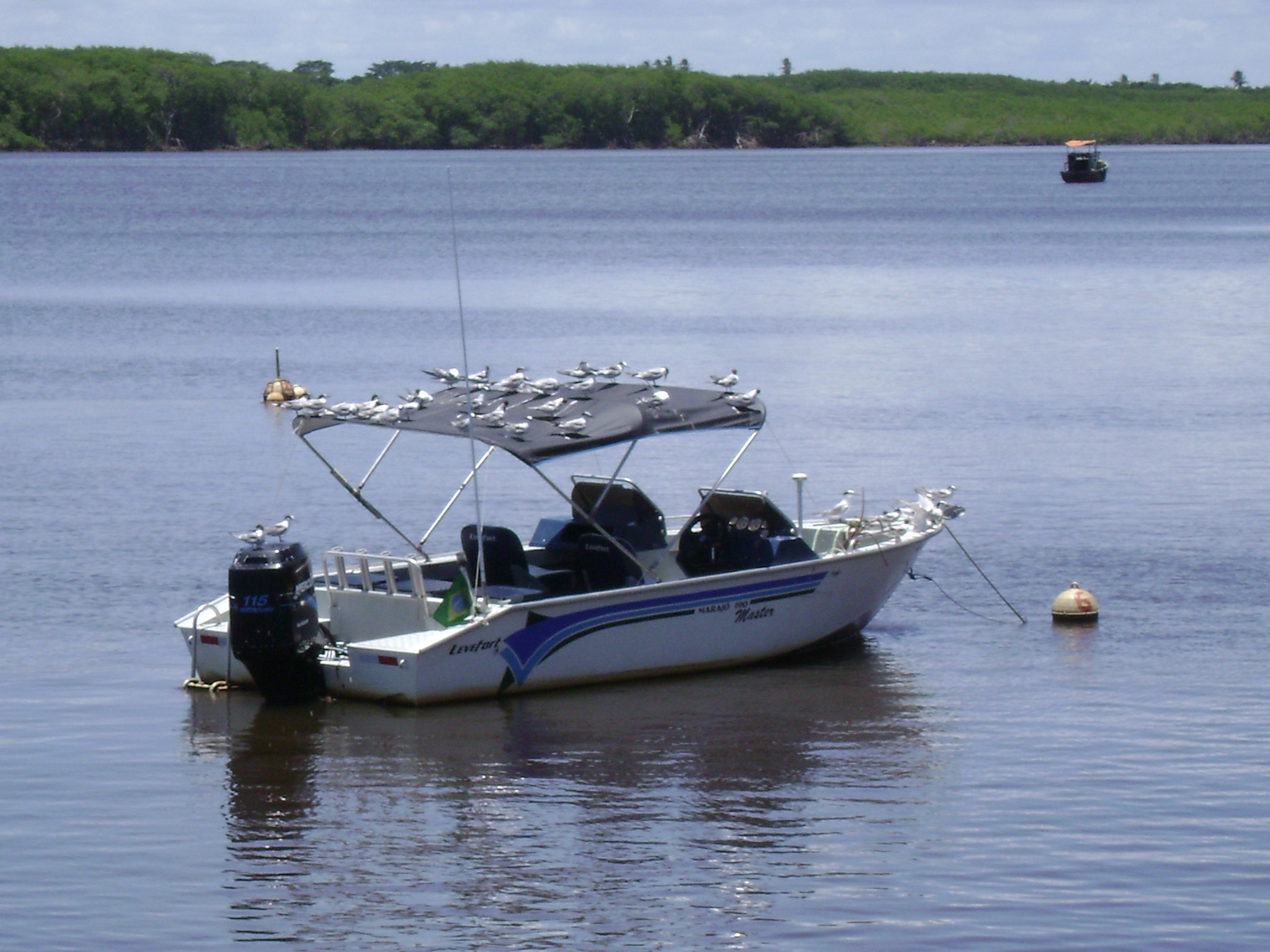 Birds in ship